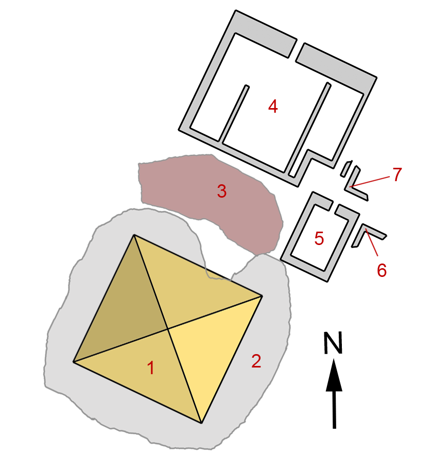 Plan of the Ahmose pyramid.